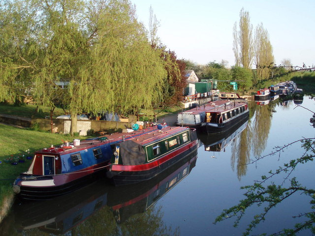 Kilworth Wharf. Boats bask in the evening sunshine at this wharf for pleasure craft on the Grand Union Canal (Leicester Arm).